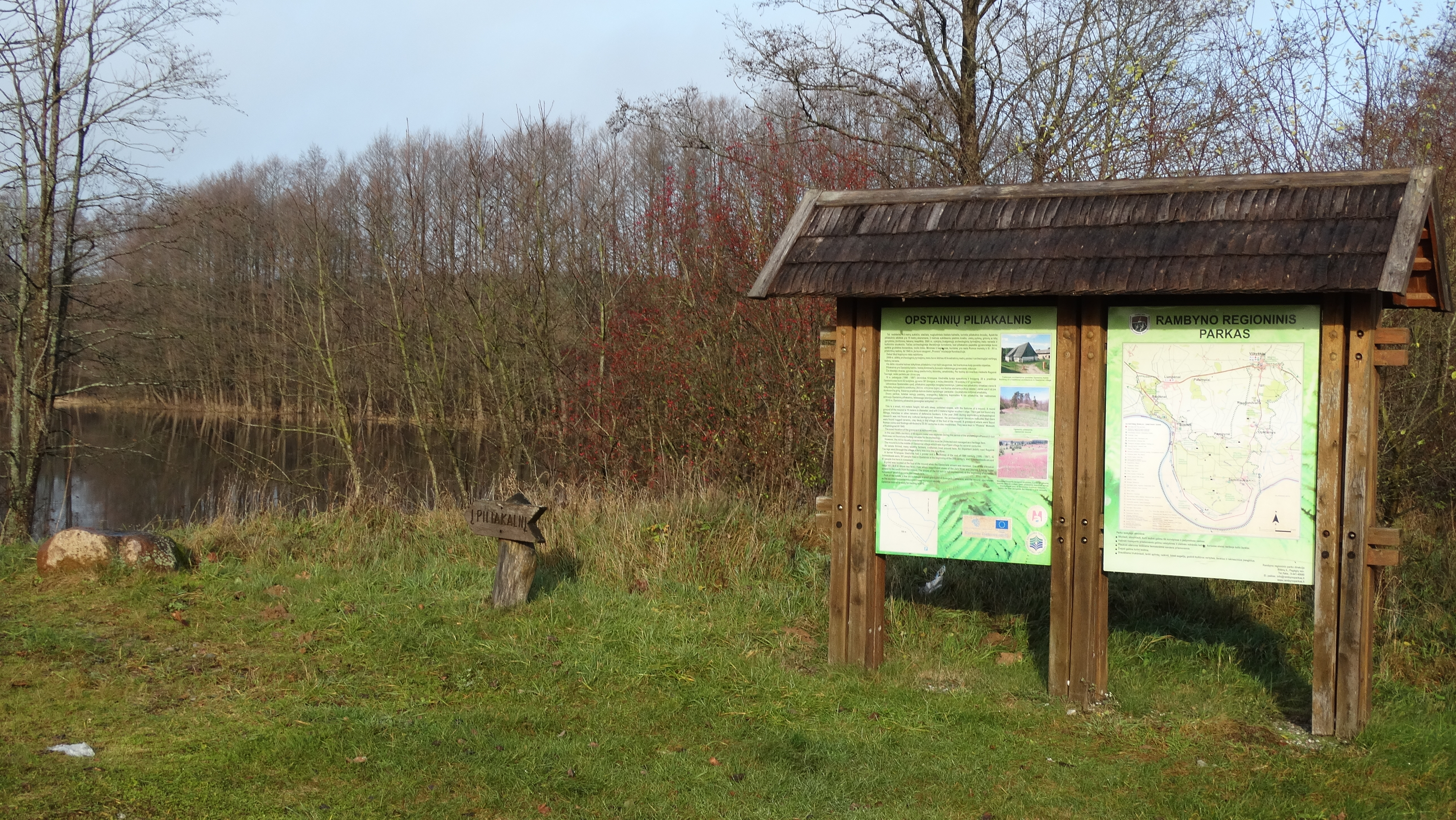 Opstainys hillfort II, Pagėgiai Municipality, Lithuania